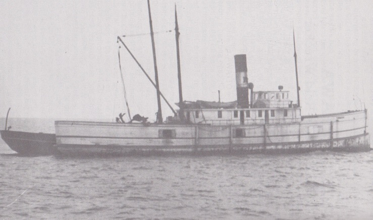 Photograph of the ship Ottawa, which sank in Lake Superior.